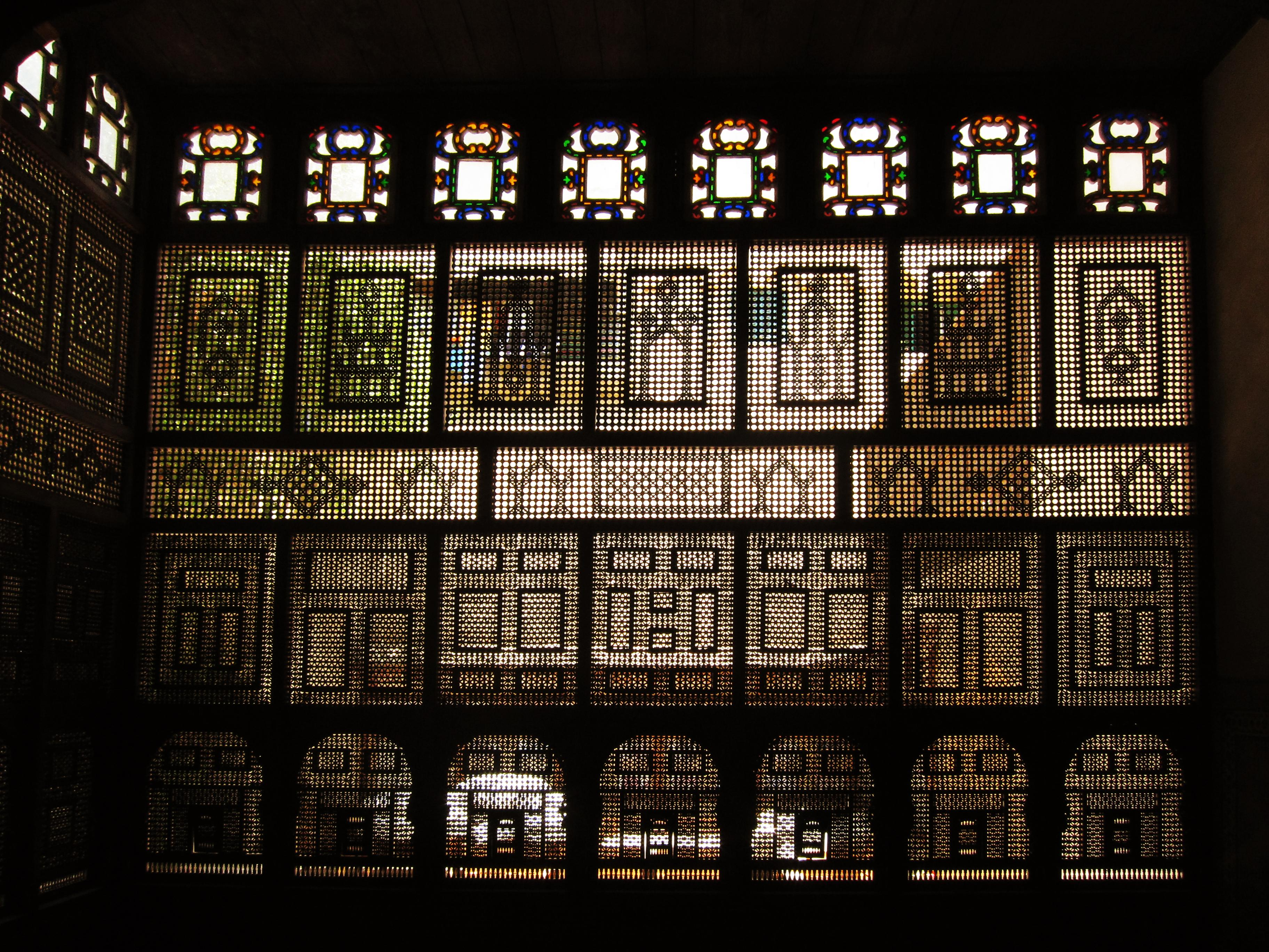 Bayt Al-Suhaymi or the House of Suhaymi is an old Ottoman era house museum in Cairo, Egypt. It was originally built in 1648 by Abdel Wahab el Tablawy along the Darb al-Asfar, a very prestigious and expensive part of Medieval Cairo. In 1796 it was purchased by Sheikh Ahmed as-Suhaymi whose family held it for several subsequent generations. The Sheikh greatly extended the house from its original through incorporating neighbouring houses into its structure. More.